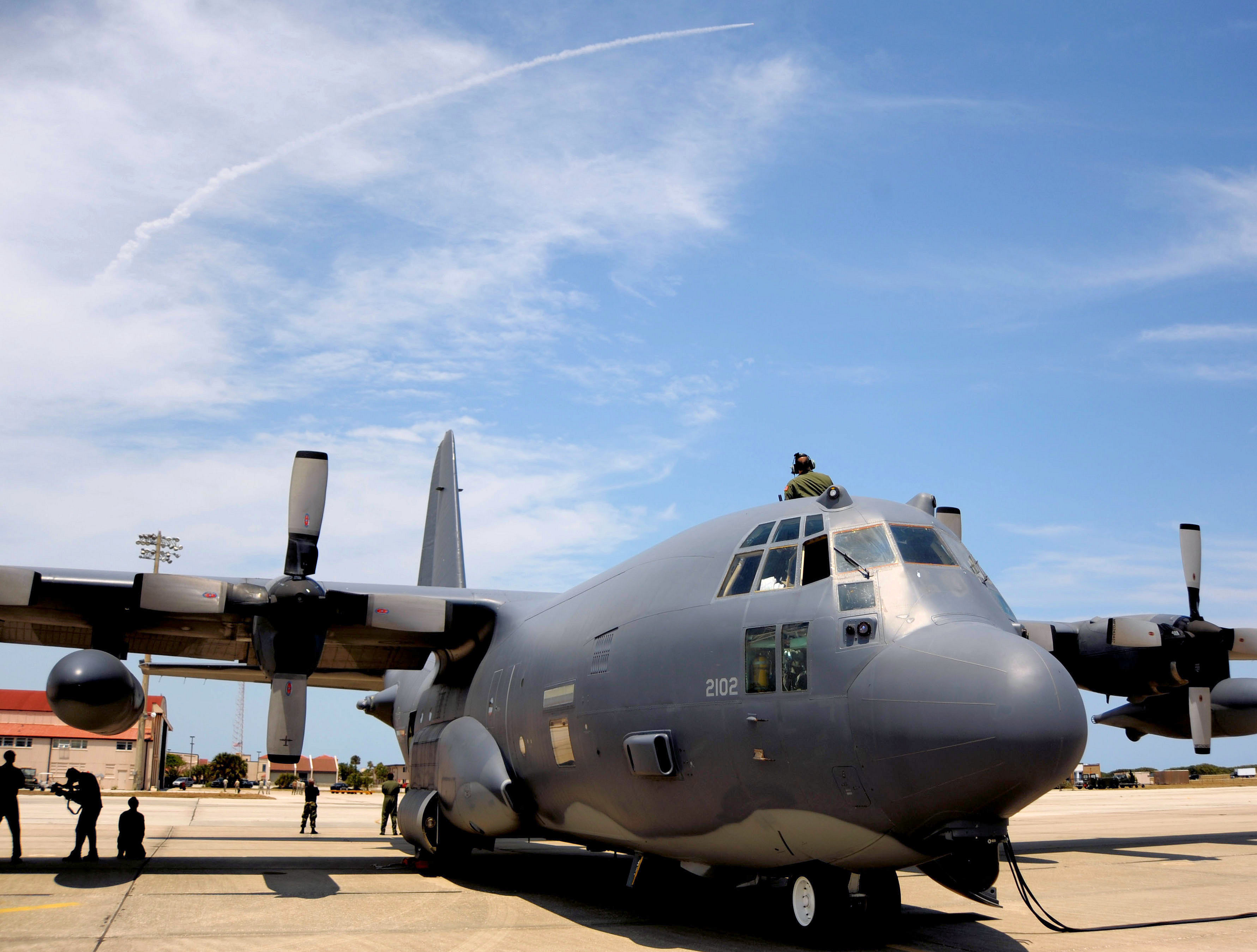 Members of the Air National Guard's 106th Rescue Wing, 102nd Rescue Squadron, from F.S. Gabreski Airport in Westhampton Beach, N.Y. along with Pararescuemen (PJ) from the 131st Rescue Squadron, from Moffett Federal Airfield, located near Mountain View, Ca., watch from Patrick Air Force Base, Fla. as NASA's space shuttle mission, STS-125, launches from NASA's Kennedy Space Center on May 11, 2009. The launch of STS-125 marked the 106th Rescue Wing's 100th rescue mission support since beginning their participation in 1988. (U.S. Air Force photo/Staff David J. Murphy)